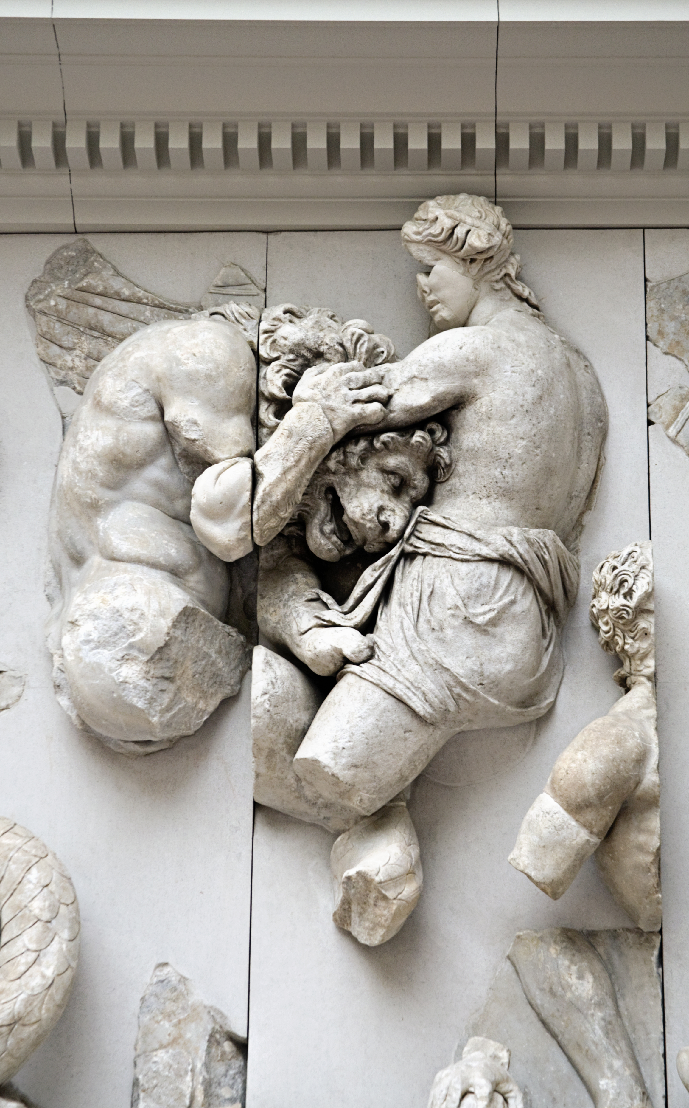 Pergamon Altar - Gigantomacy frieze, detail